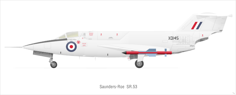 Profile drawing of Saro SR.53